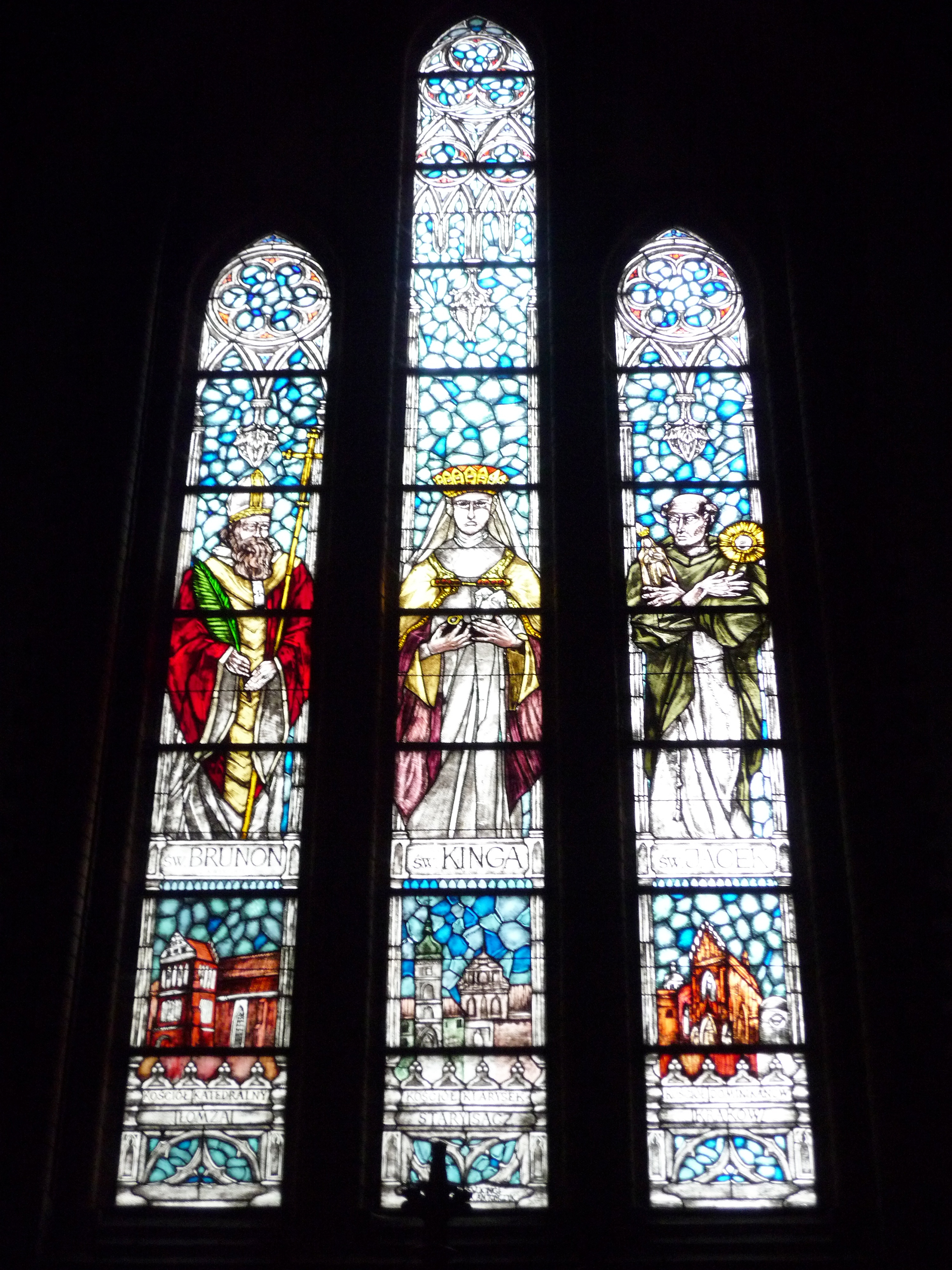 Białystok - stained glass windows in the catholic cathedral of the Assumption of the Blessed Virgin Mary